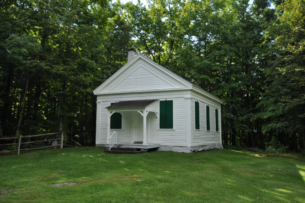 William Miller Farm Historic District, Hampton, New York. Chapel built by William Miller.